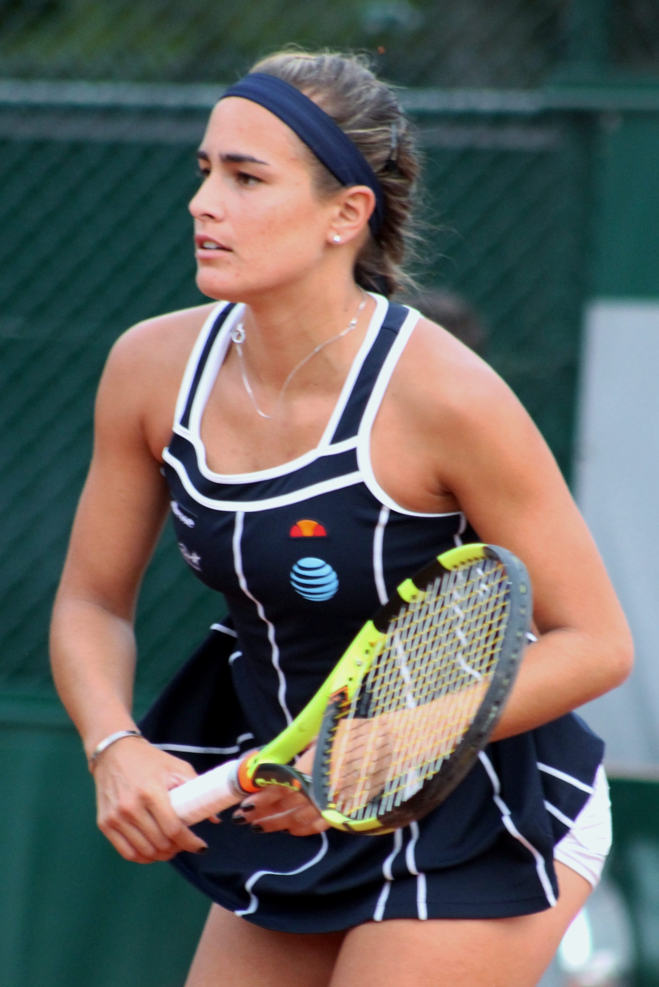 Mónica Puig, 2016